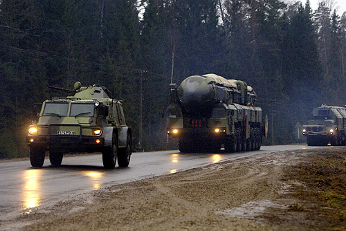 TEIKOVO, IVANOVO REGION. Mobile ground-based Topol missile complex on the road.